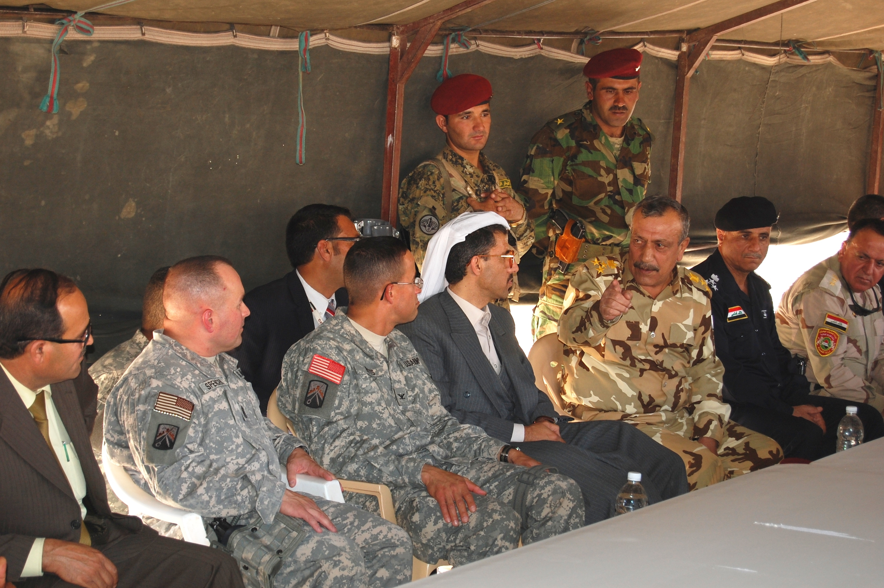 Col. Martin Pitts, commander, 16th Sustainment Brigade, and Command Sgt. Maj. James Spencer, command sergeant major, 16th SB, meet with leaders from the Ninawa province at the October 'Souq' on Q-West Oct. 4. The bazaar was the first occasion for some provincial leaders to meet with the base's new command team. The 16th SB has command and control over Q-West and is responsible for sustainment operations throughout the Ninawa province and northern Iraq. The sustainment brigade from Bamberg, Germany, assumed authority here Aug. 9.